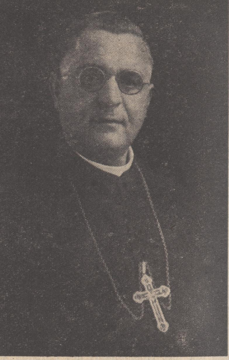 Alfred Koch OSB, Archabbot of Saint Vincent Archabbey, Latrobe, USA